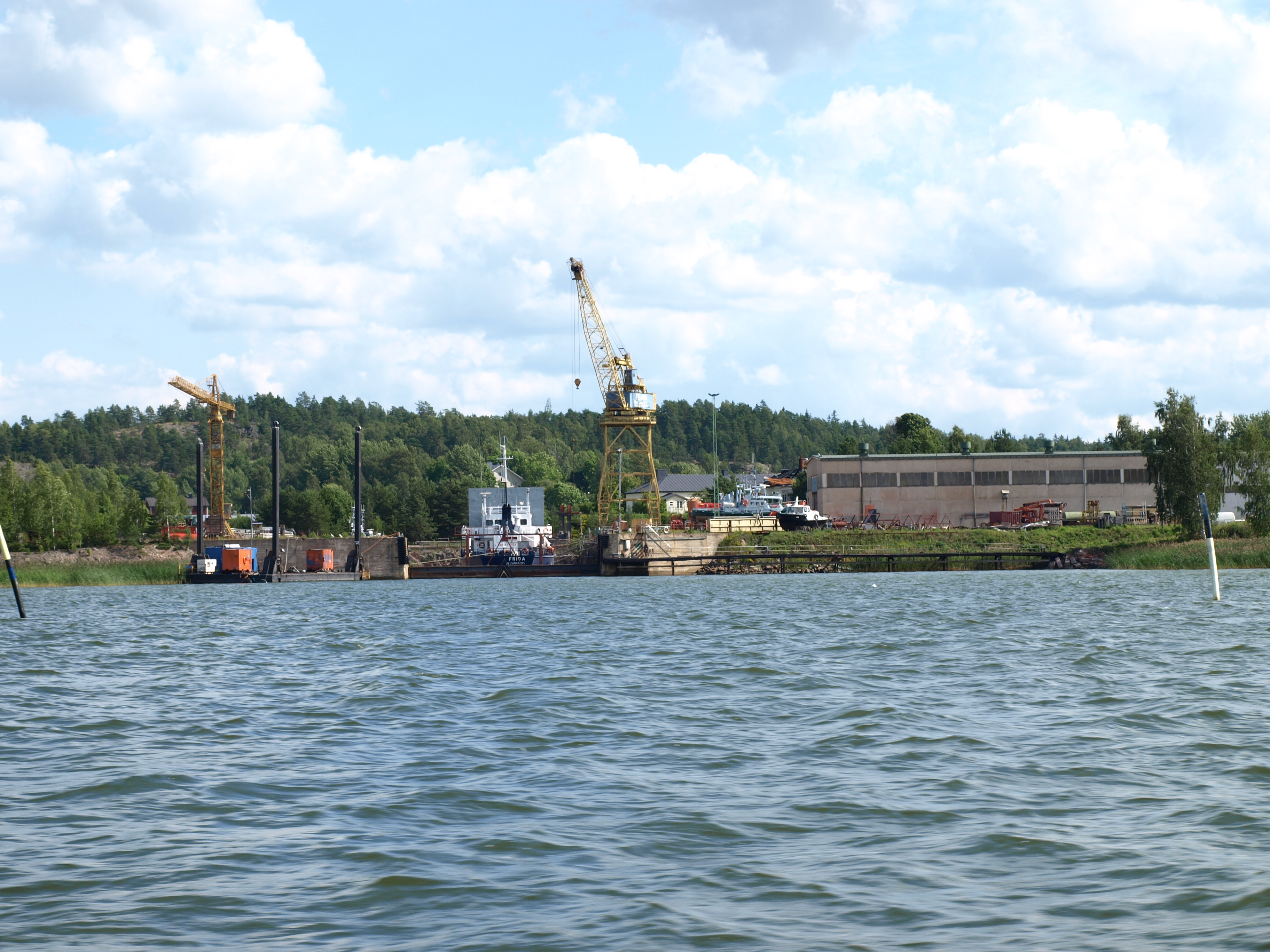 the Dockyard of Teijo in Perniö, Finland